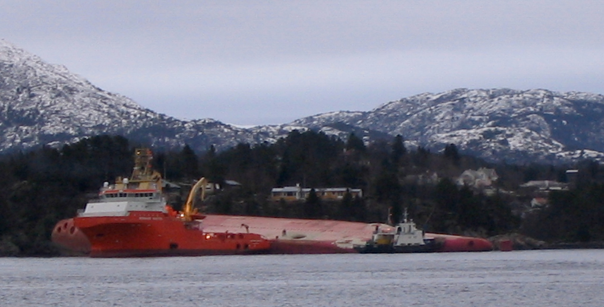 M/S «Rocknes», ex. «Kvitnes» and «Nordnes», which capsized in Vatlestraumen outside Bergen, Norway, 19 January 2004. 18 people abord the ship died in the accident.